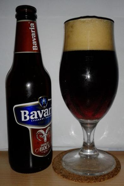 Bavaria Hooghe Bock (.30 liter bottle + unrelated glass)